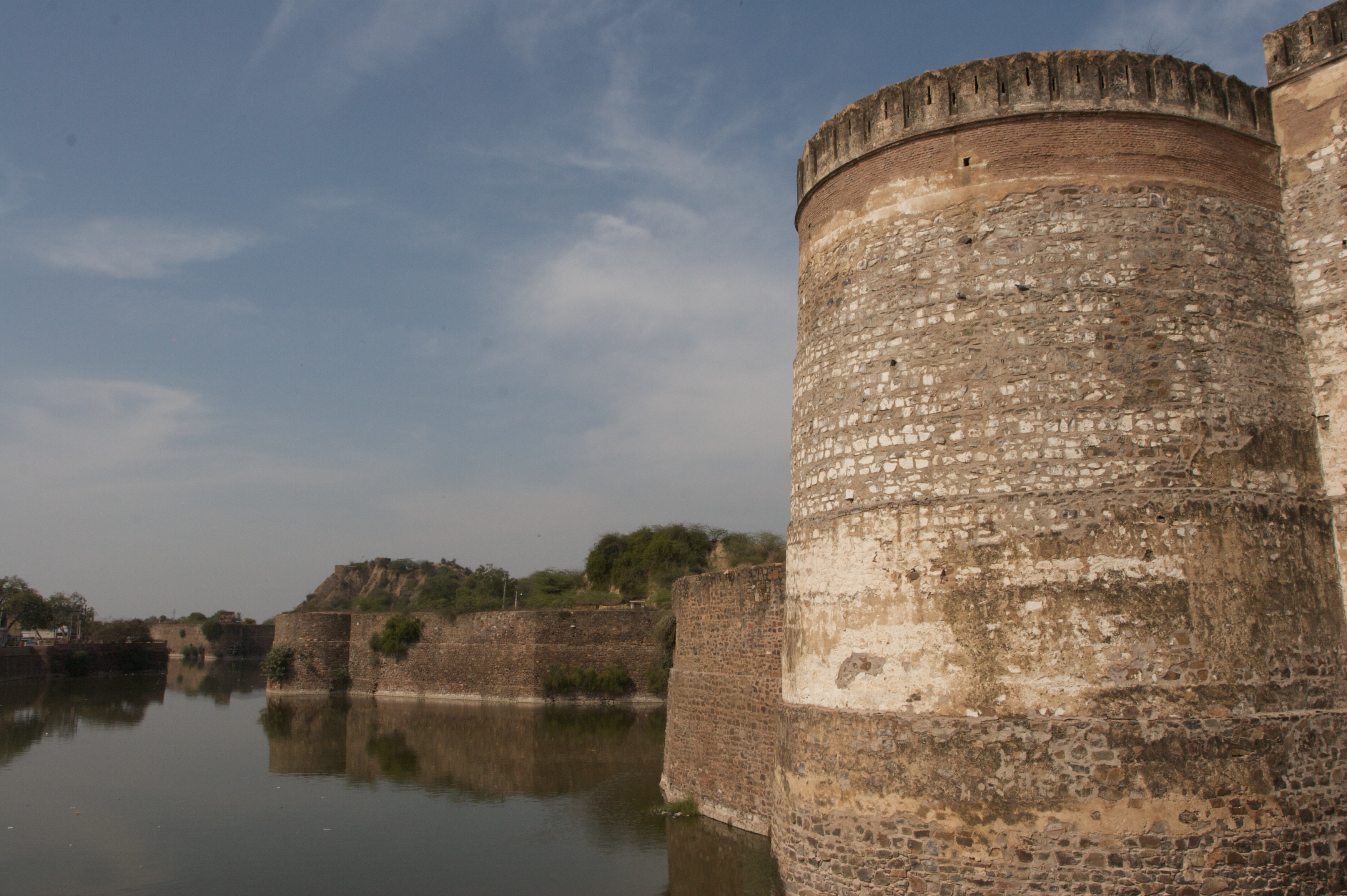 This is the wall of the Lohagarh Fort, also known as the "Iron Fort" in downtown Bharatpur. The fort is very austere, but withstood many attacks by the British in the 1800s. The fort contains a small city that is still very much lived in.